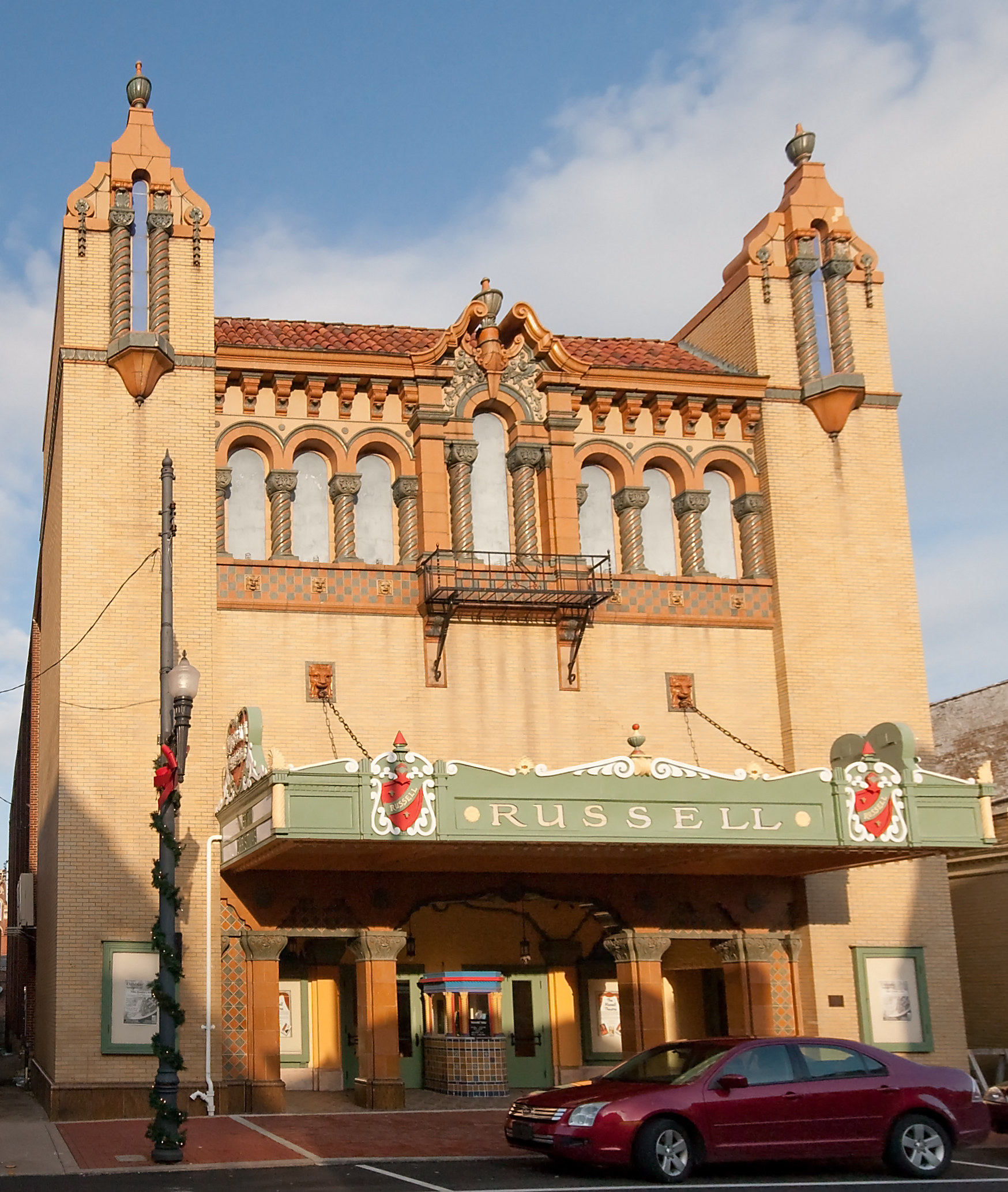 Russell Theater in Maysville, Ky. Photo by Greg Hume